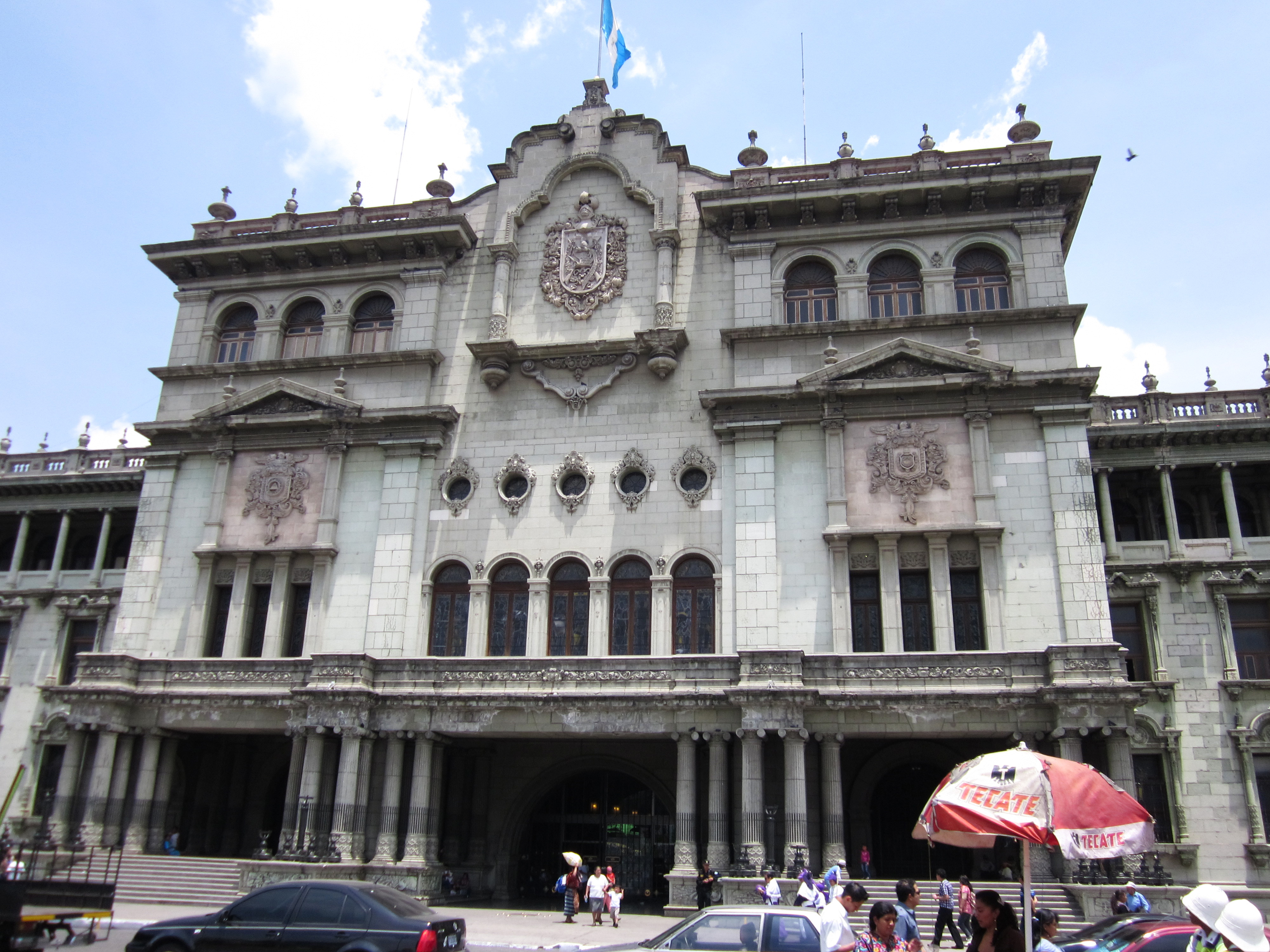 The Palacio Nacional de la Cultura (National Palace of the Culture) in Guatemala City, Guatemala.